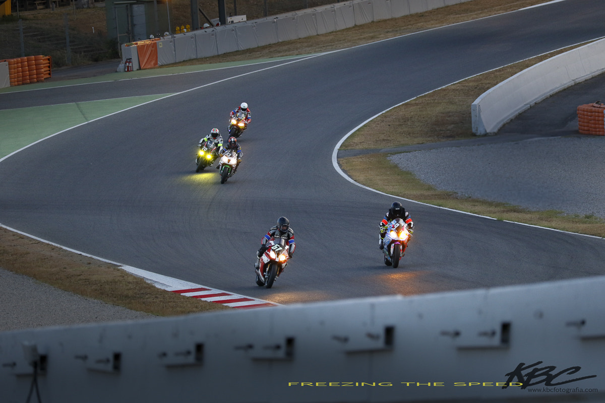 500px provided description: Bikes And Drift [#motor ,#baltimore ,#stockton ,#dakar ,#holden ,#adelaide ,#port adelaide ,#uptown ,#bathurst ,#glenelg ,#amager ,#kbc ,#Web ,#city of cape town ,#capital region of denmark ,#kbcfotografia]